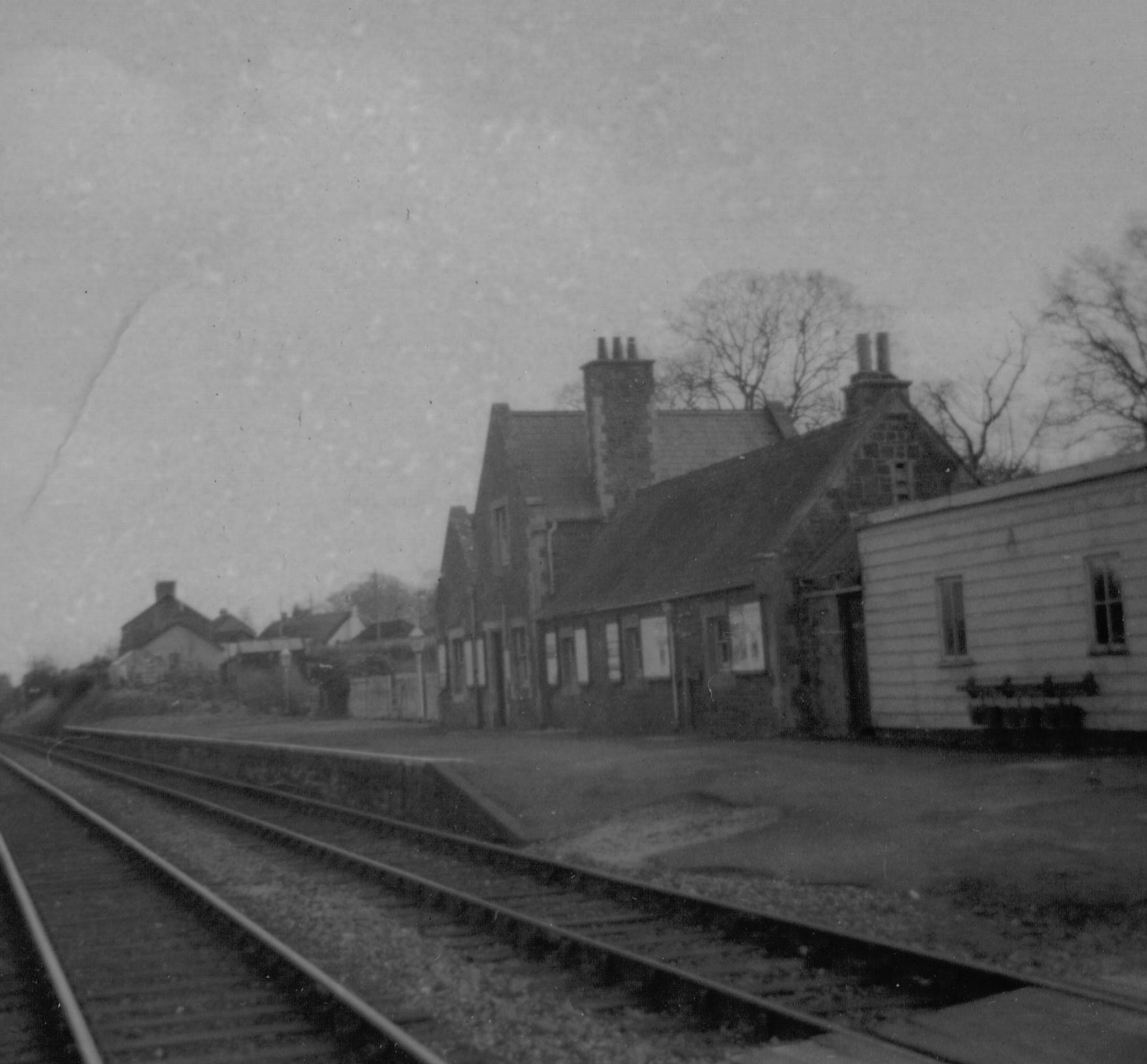 Copplestone railway station on the Exeter to Barnstaple line.